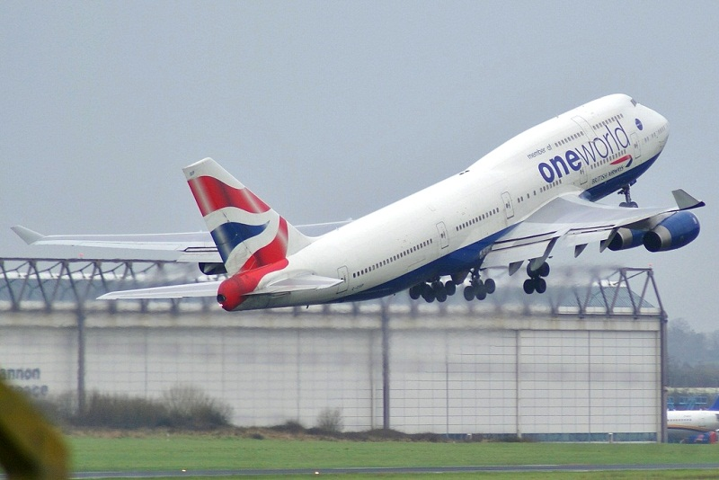 B747 G-CIVP British Airways Oneworld livery